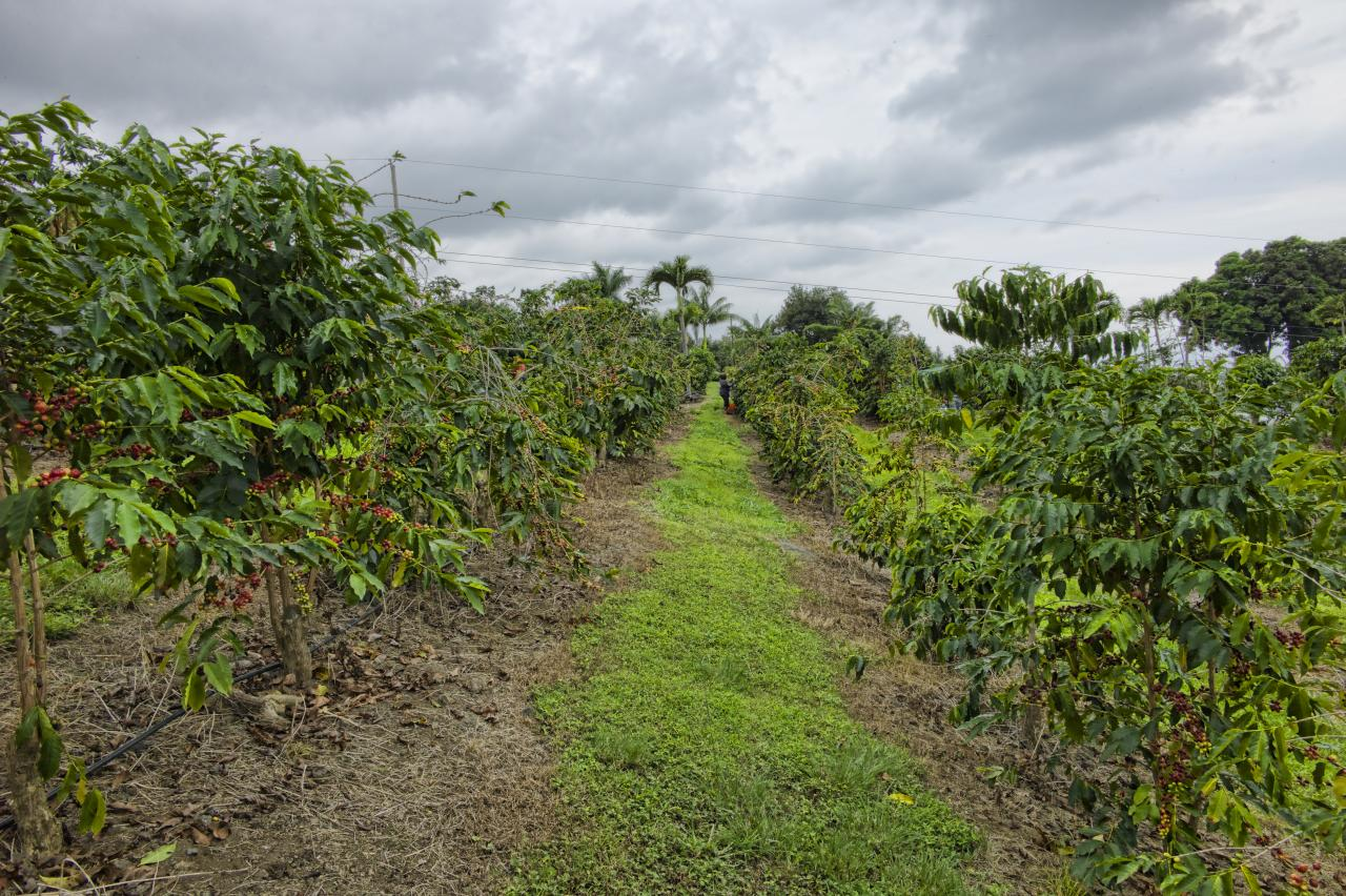 Growing Kona Coffee